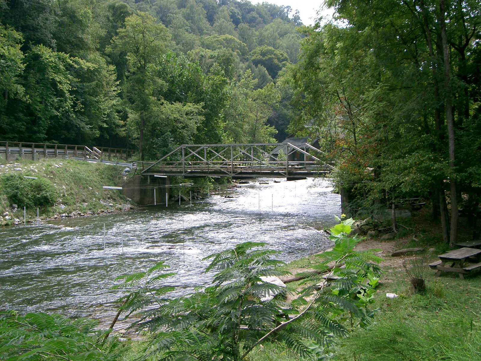 This is a photograph of the Nantahala River, and footbridge to a picnic area — in North Carolina. It shows the steep, forested Blue Ridge Mountains with lush vegetation and the free-flowing river. The Mountains-to-Sea Trail passes through this area (Nantahala Ranger District) of the Nantahala National Forest.